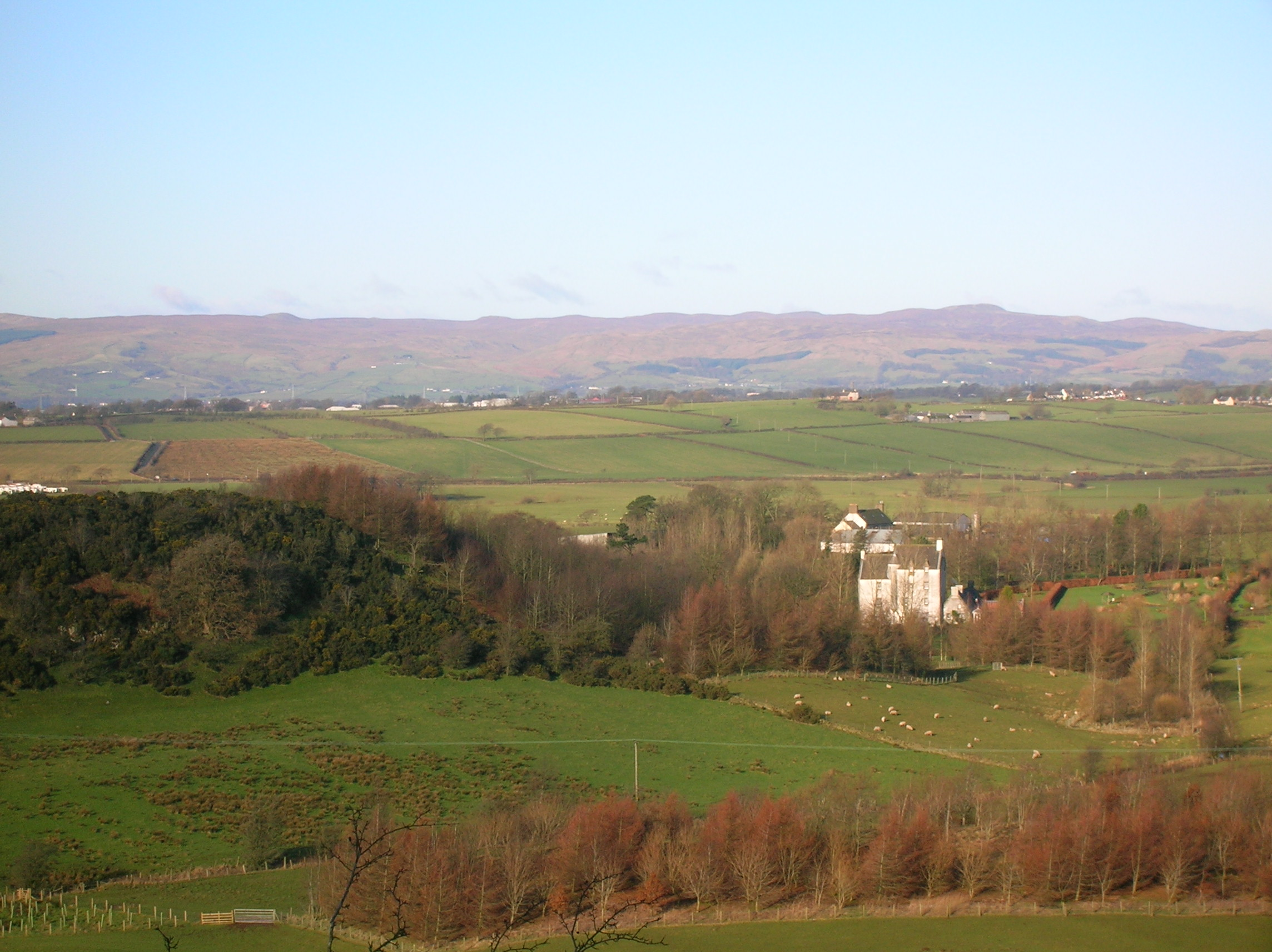 Barr Hill and Aiket Castle in East Ayrshire. 2007.